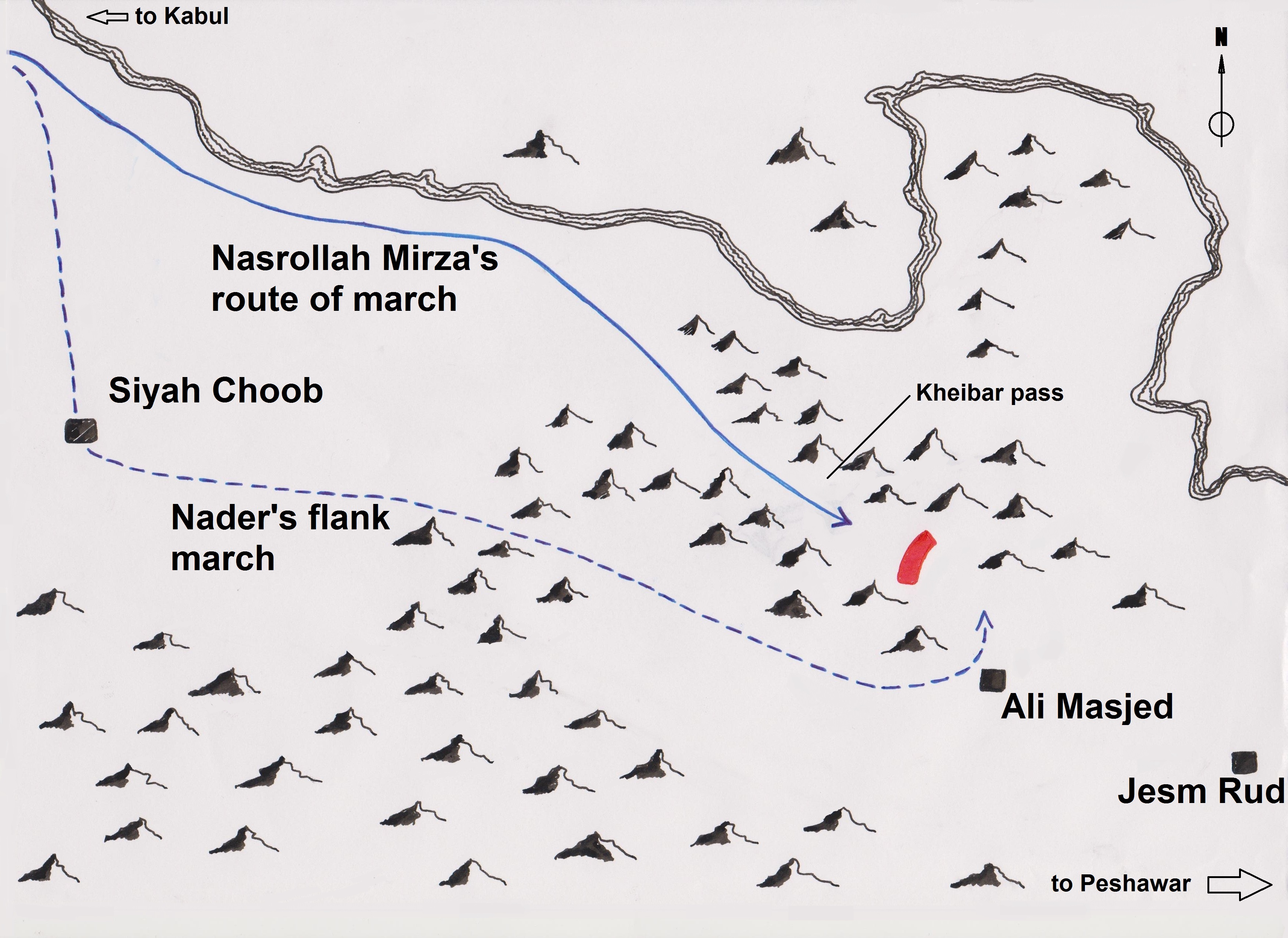 battle diagram